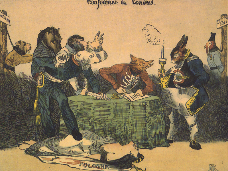 Conférence de Londres, 1832, headed by TALLEYRAND, French ambassador. At this conference the borders between Belgium,Luxemburg and Holland were redrawn. The horse: Prussia The bear: Russia The monkey: Austria The fox: Britain the hare: France the turkey: Belgium the dog: the Netherlands (Holland) Woman on the floor: Poland